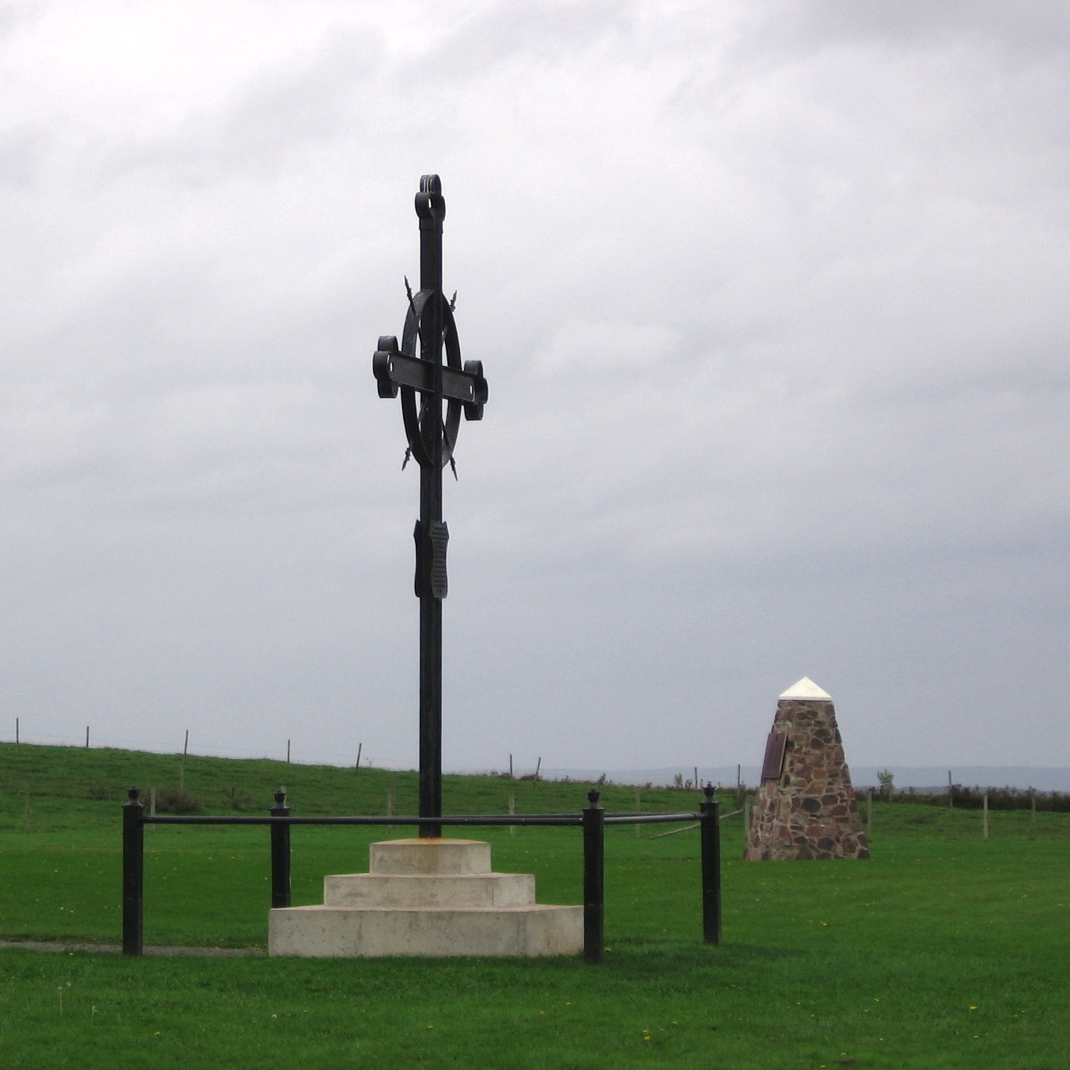 View of Acadian Memorial (foreground) and Planters Monument (background) at Grand Pre (Gaspereau River), Nova Scotia